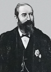 John Yarker, died 1913, Freemason, Occultist